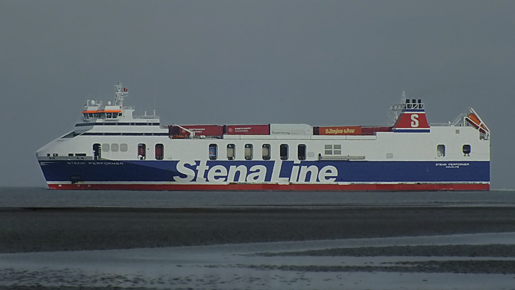 Off Heysham Port